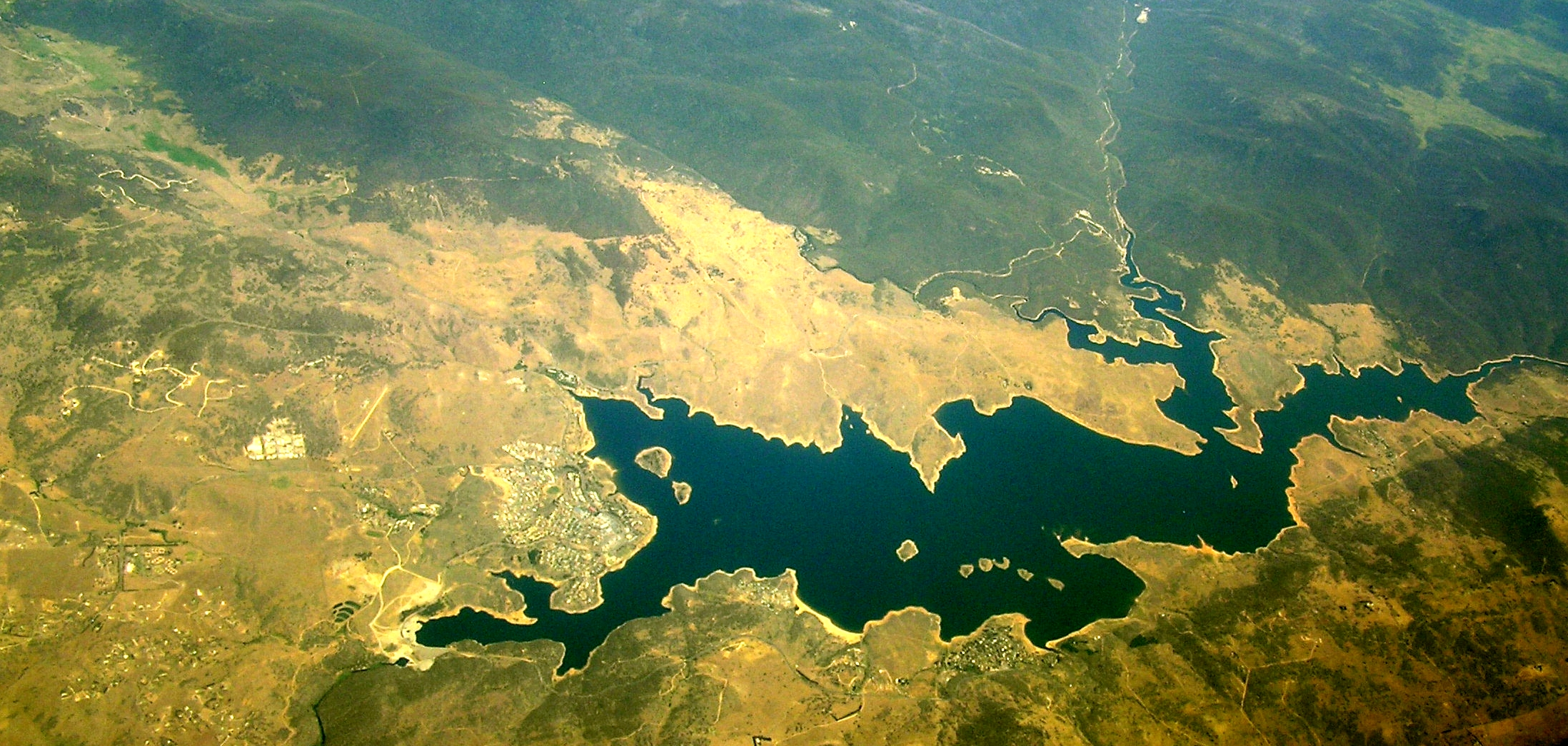 Aerial view of Lake Jindabyne New South Wales Australia from east